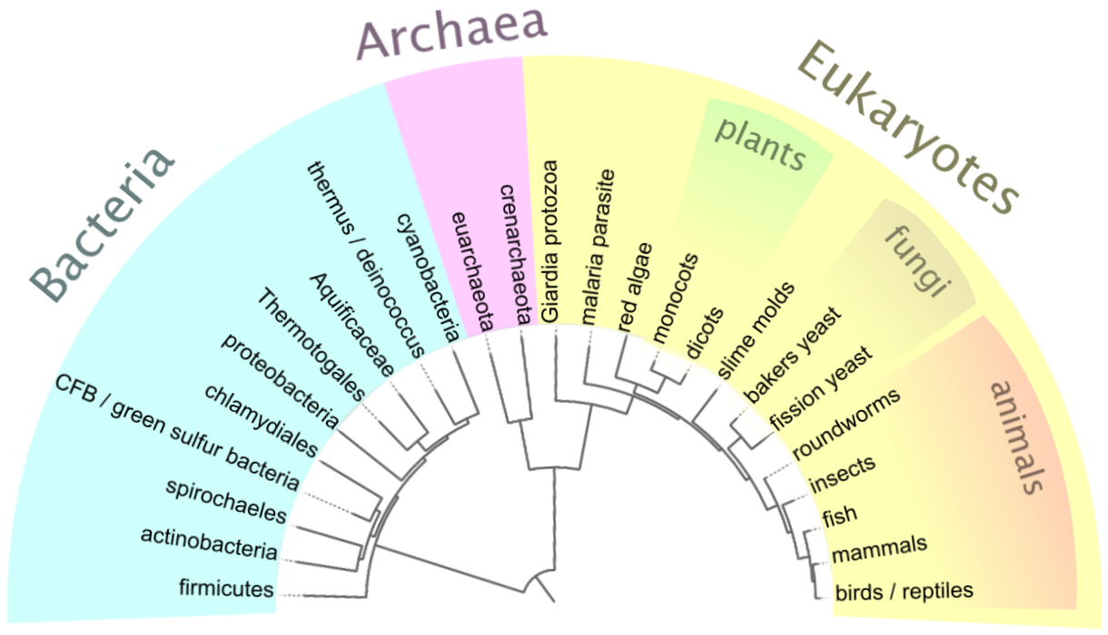 Simplified universal phylogenetic tree, made using information from the Interactive Tree of Life. Ciccarelli, et al., Mar 3 2006, Science Vol. 311. Additional information and colors added with GIMP.